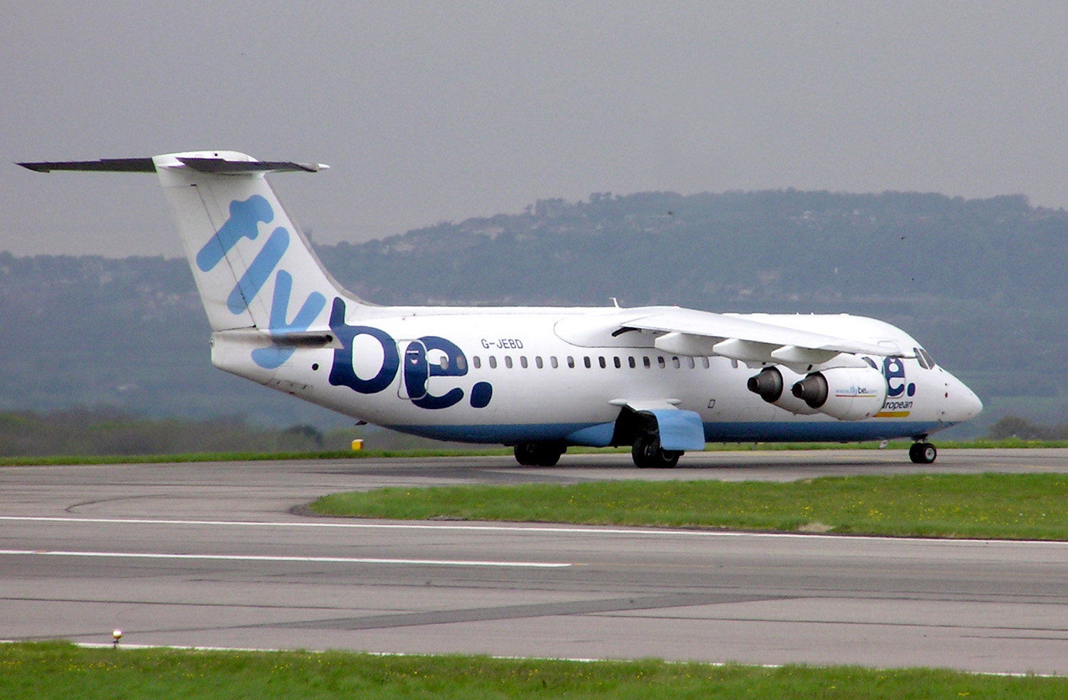 Flybe British Aerospace 146-300 (G-JEBD) at Bristol Airport, Bristol, England. Photographed by Adrian Pingstone in May 2005 and released to the public domain.